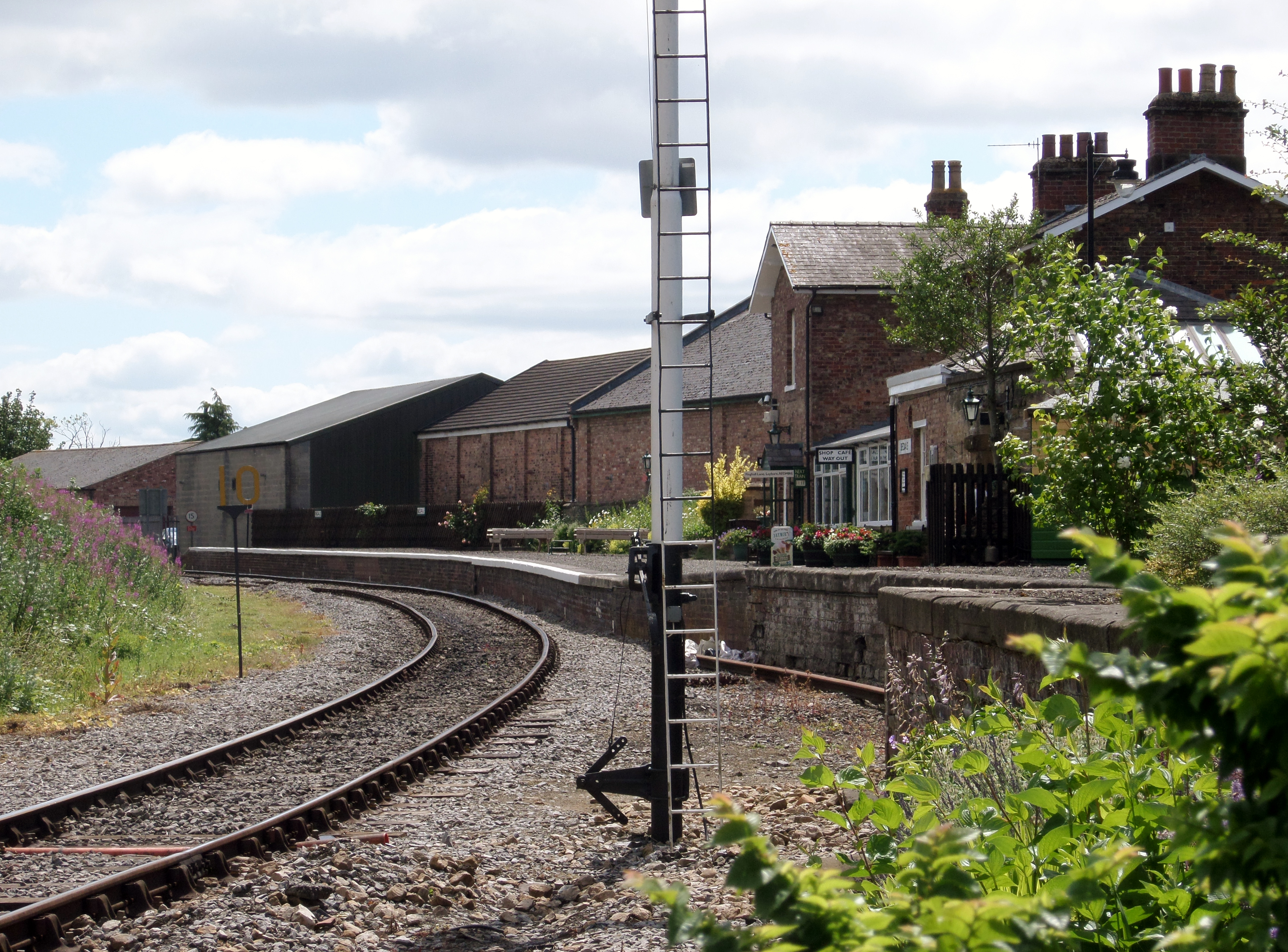 Bedale railway station, view to the west, Wensleydale Railway, North Yorkshire, England.